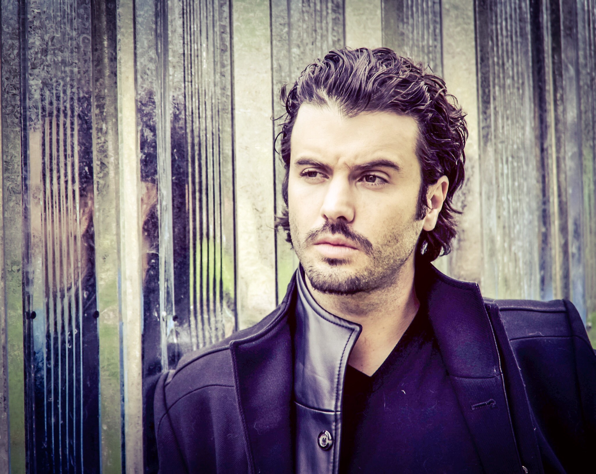 Profile picture